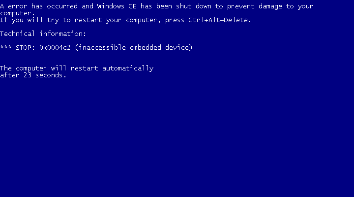 A screenshot of a Windows CE 5.0 stop message, taken by myself in VMware.